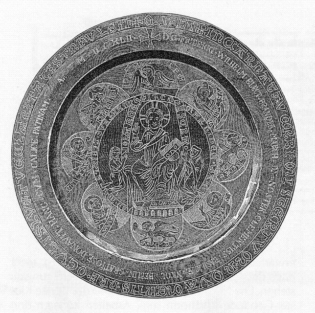 Paten, created 1280/1290 in the abbey Kloster Chorin, showing Co-ruler Margrave John II (ca 1237–1281) (Margraviate of Brandenburg and his wife Hedwig von Werle.